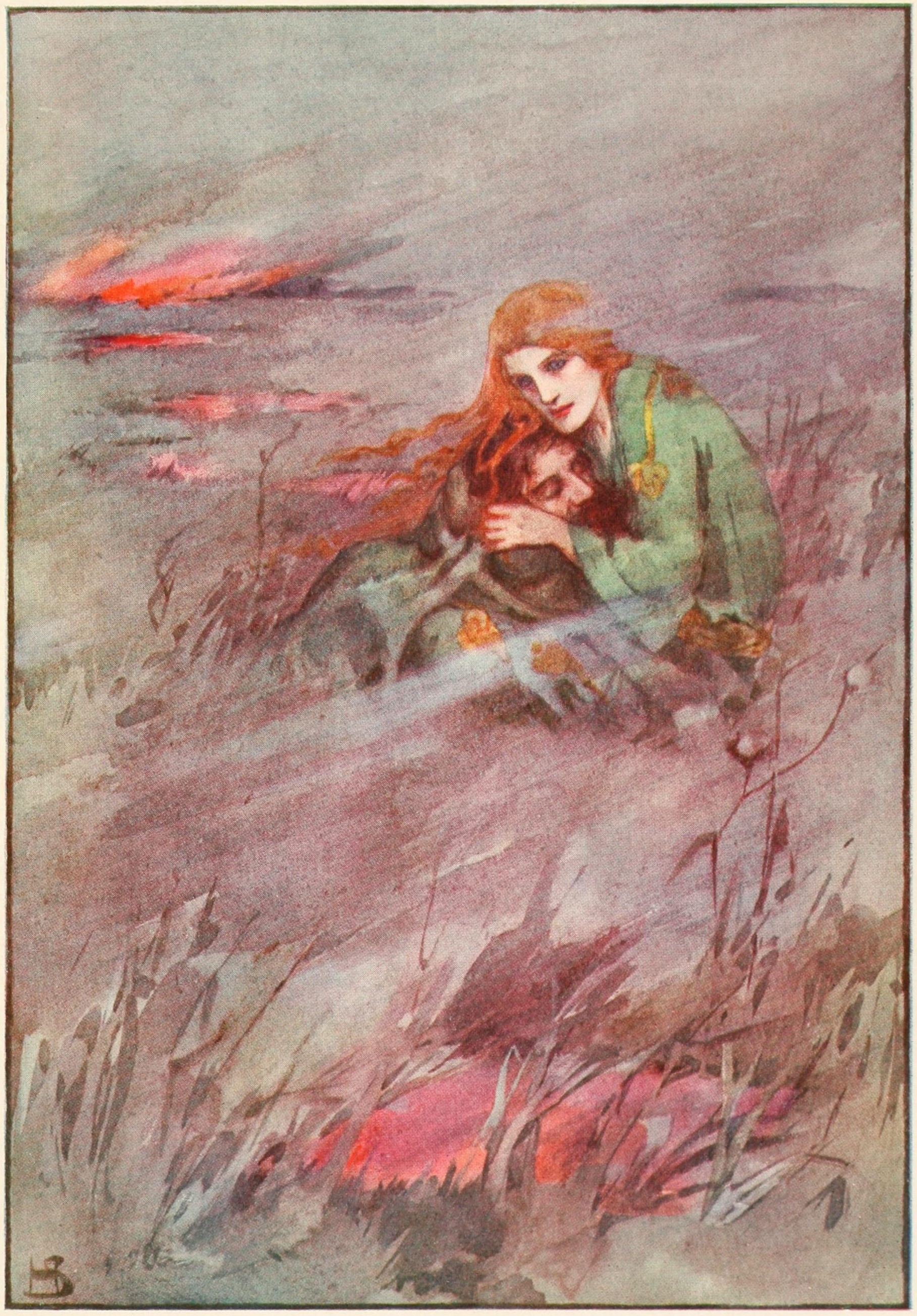 Illustration from a collection of myths.